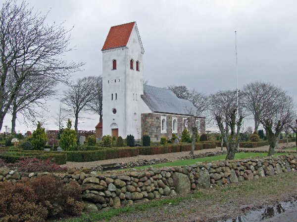 Church of Ølby, situated app. 5 km southwest of the danish town Struer. Photo taken by Jørgen Larsen, 2005-11-26